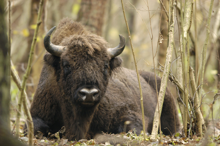 Wisent in the Sauerland. Source url- My own website. Author the Forestry department Rothaargebirge.